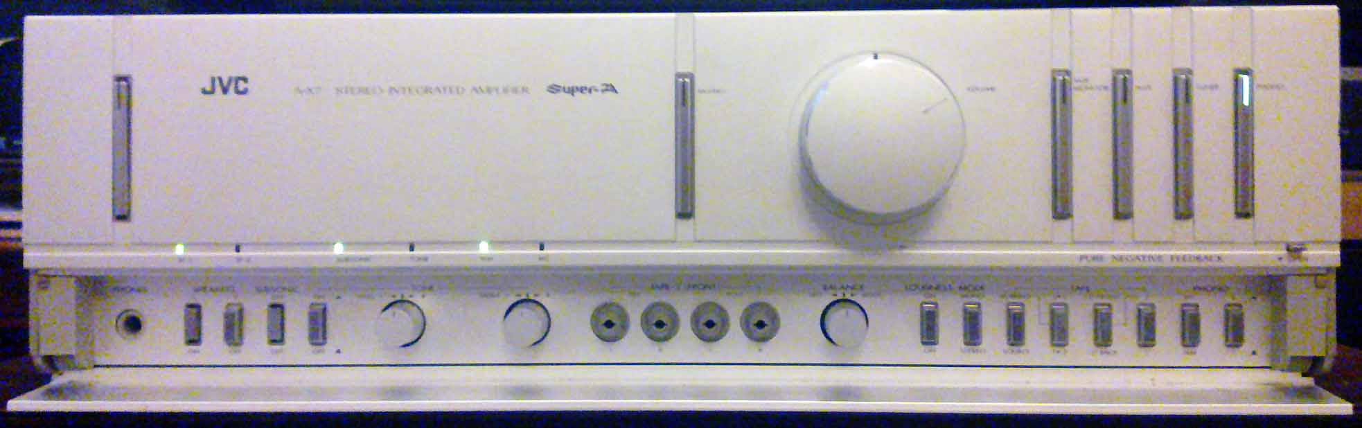 JVC A-X7 Integrated Amplifier - Front, 90 W/ channel (8 Ohm), weight 12 kg; bulit ca. 1980.